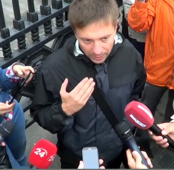 Alexander Danilyuk, the leader of the Spilna Sprava (Common Cause) civic rights movement.